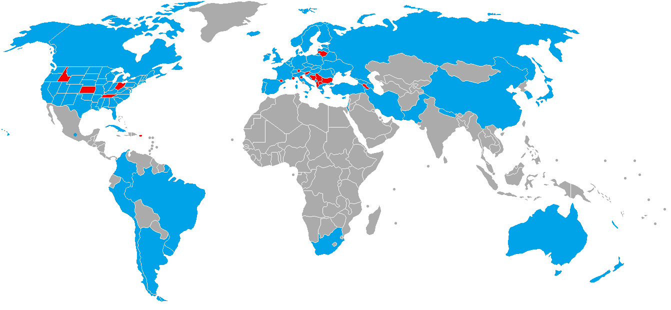 Laws concerning gender identity/expression, in the world.